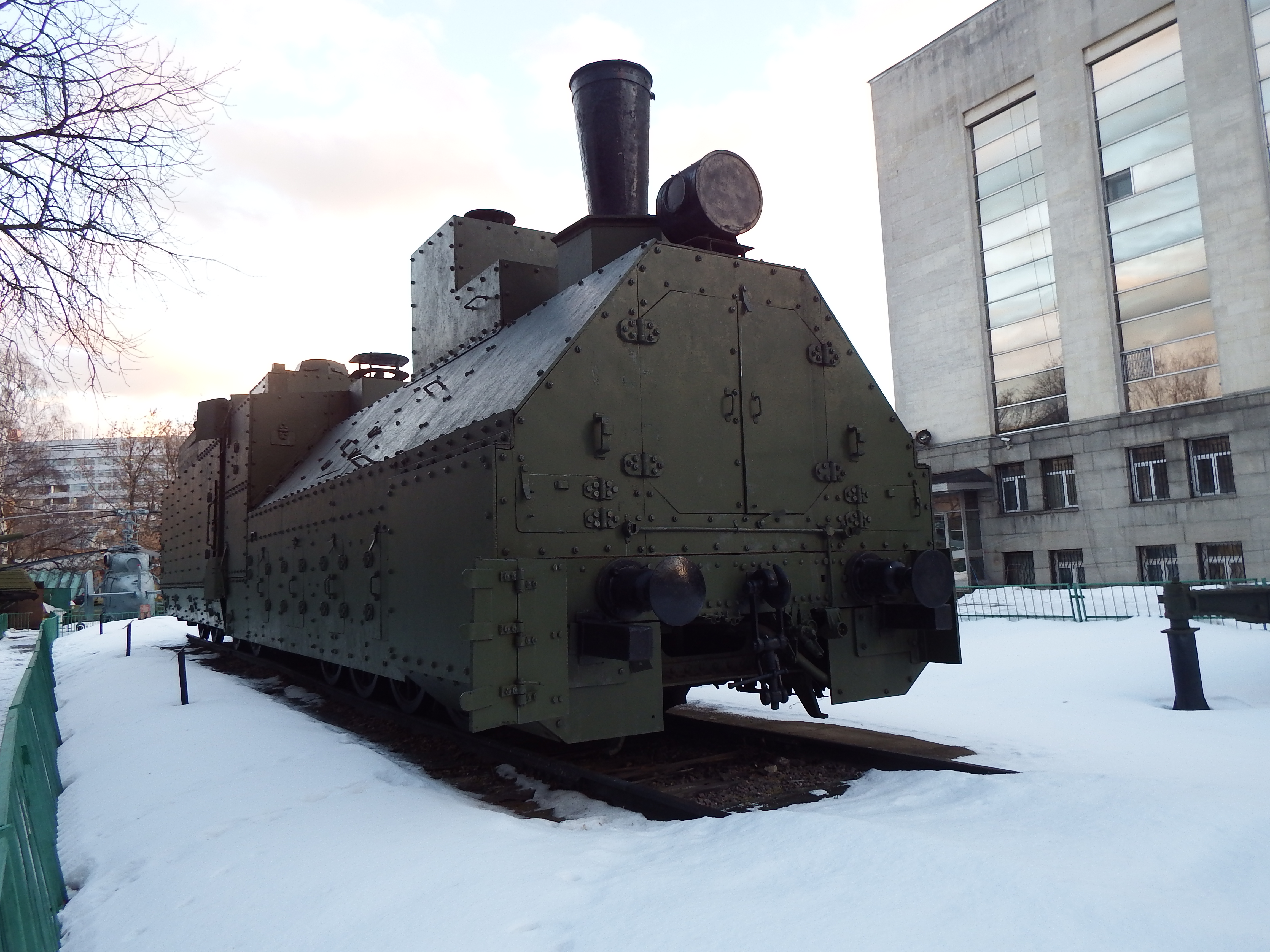 Armored steam locomotive ОВ № 5067 in the Central Museum of Russian Armed Forces, Moscow